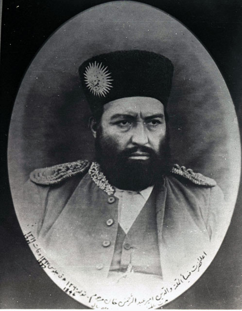 Abdur Rahman Khan, Emir of Afghanistan from 1880 to 1901.